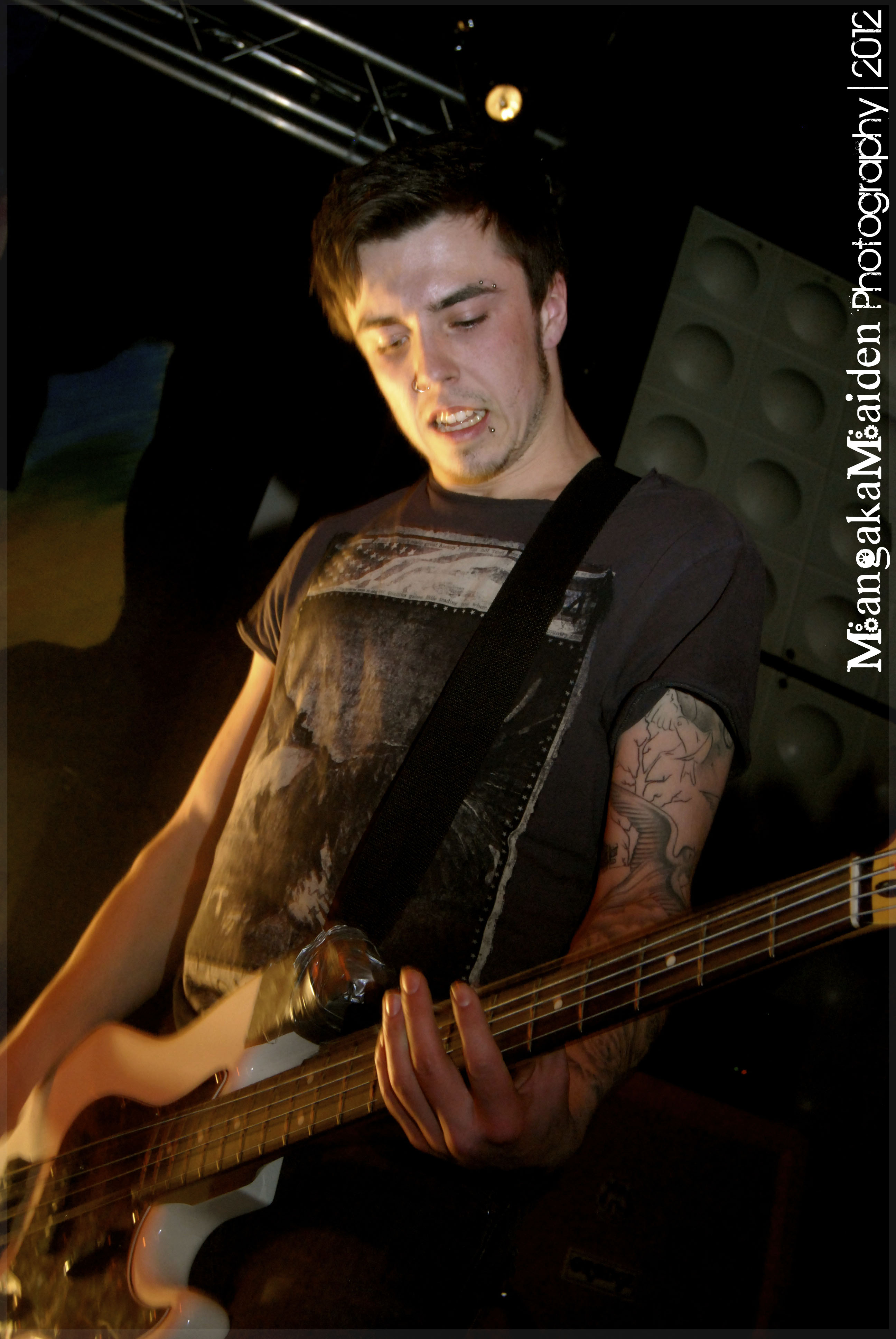 Club 85, Hitchin - 11/2/12